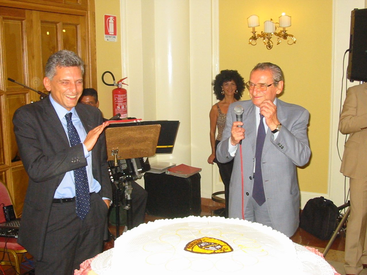 Maurizio Stirpe, Italian businessman and chairman of Italian football club Frosinone Calcio, with his father Benito, former President of the club in the 60s. They were both decorated with the Order of Merit for Labour by the President of the Italian Republic, respectively in 2020 and 2000